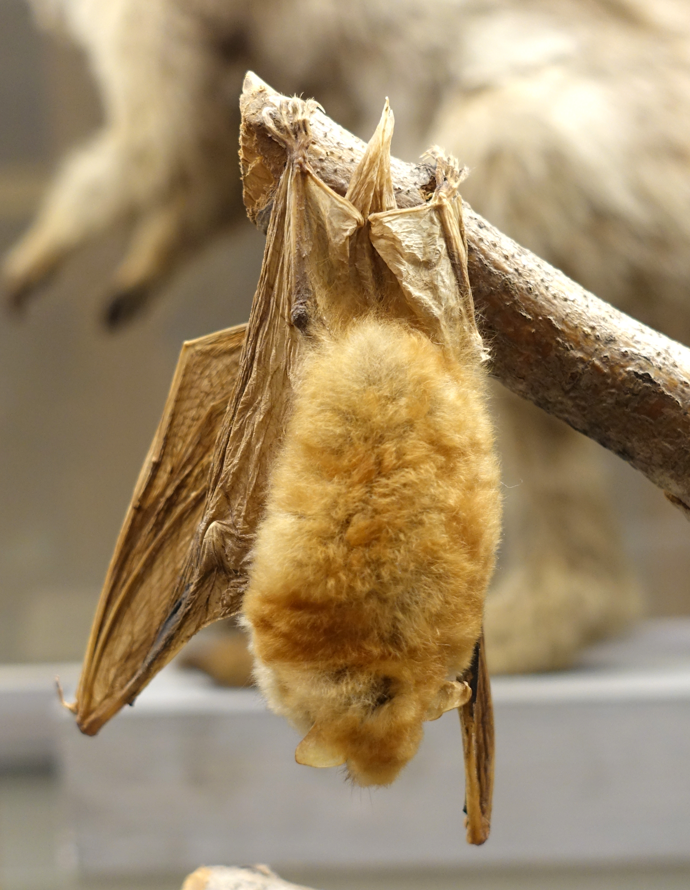 Exhibit in the Swedish Museum of Natural History - Stockholm, Sweden.